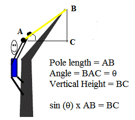 Using a pole to measure the height of the top of the tree above climbing position